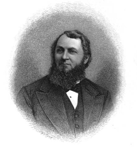 Portrait of Josiah Hayden Drummond